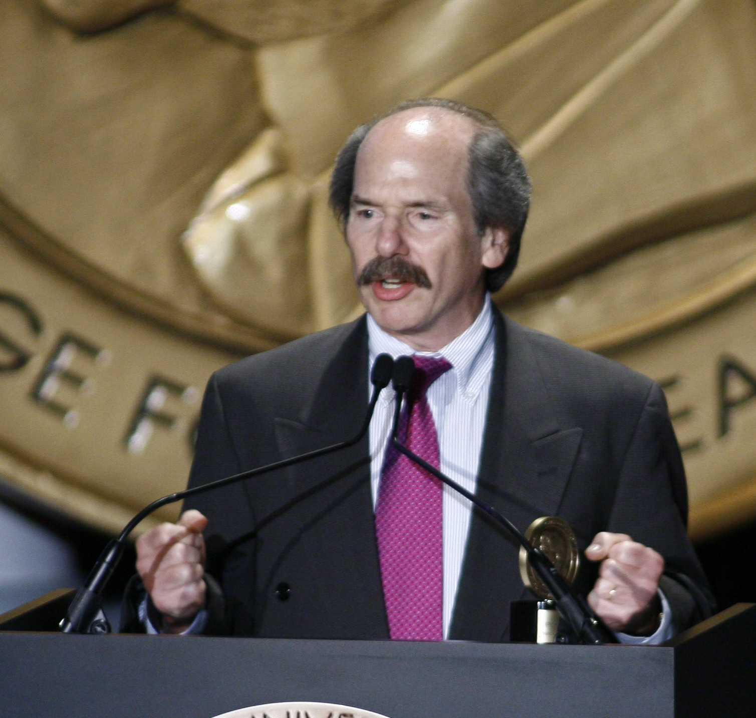 American journalist Daniel Zwerdling at the 66th Annual Peabody Awards, New York City.